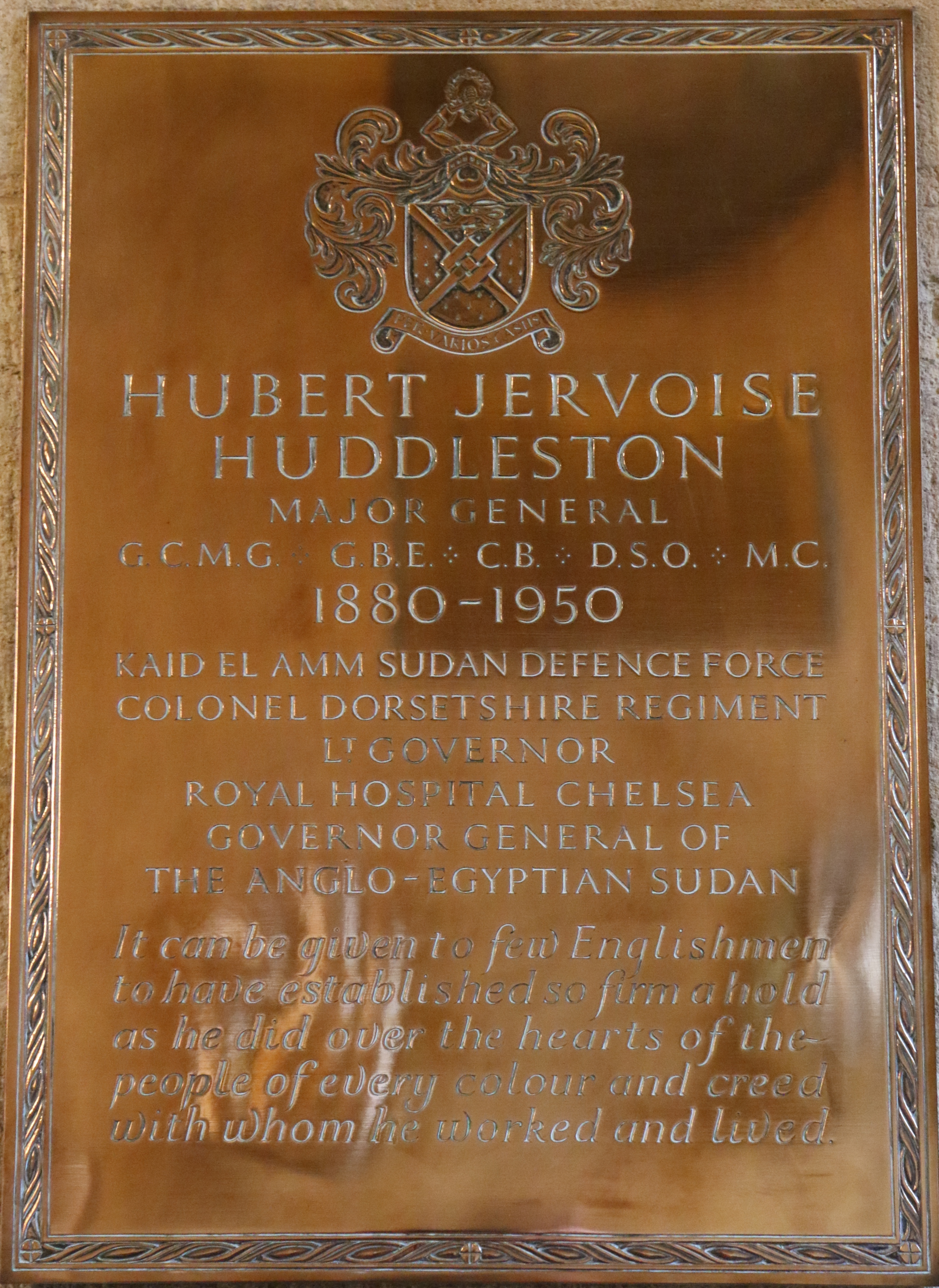 Major General Hubert Jervoise Huddleston GCMG GBE CB DSO MC 1880 - 1950